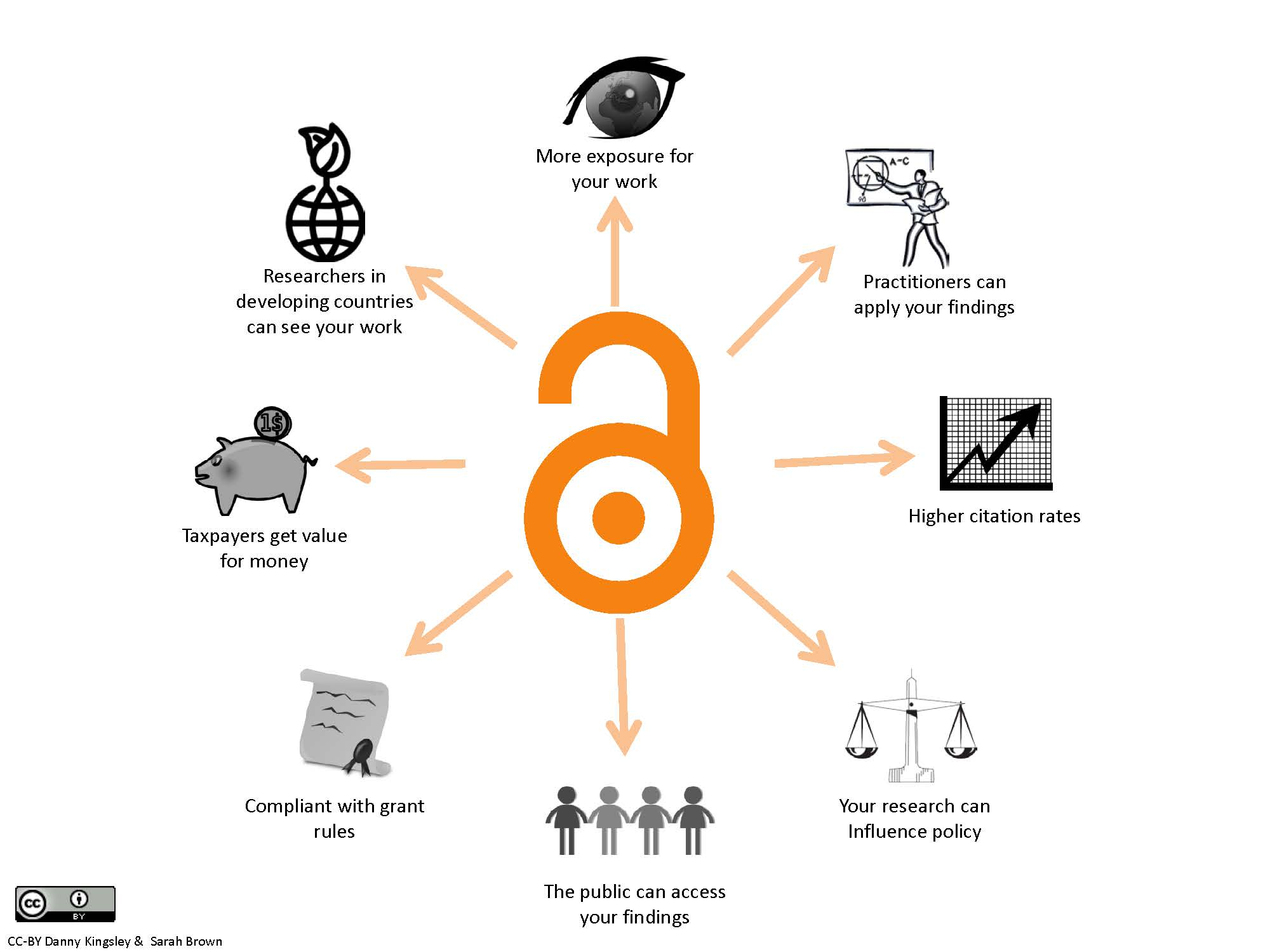 Benefits of Open Access